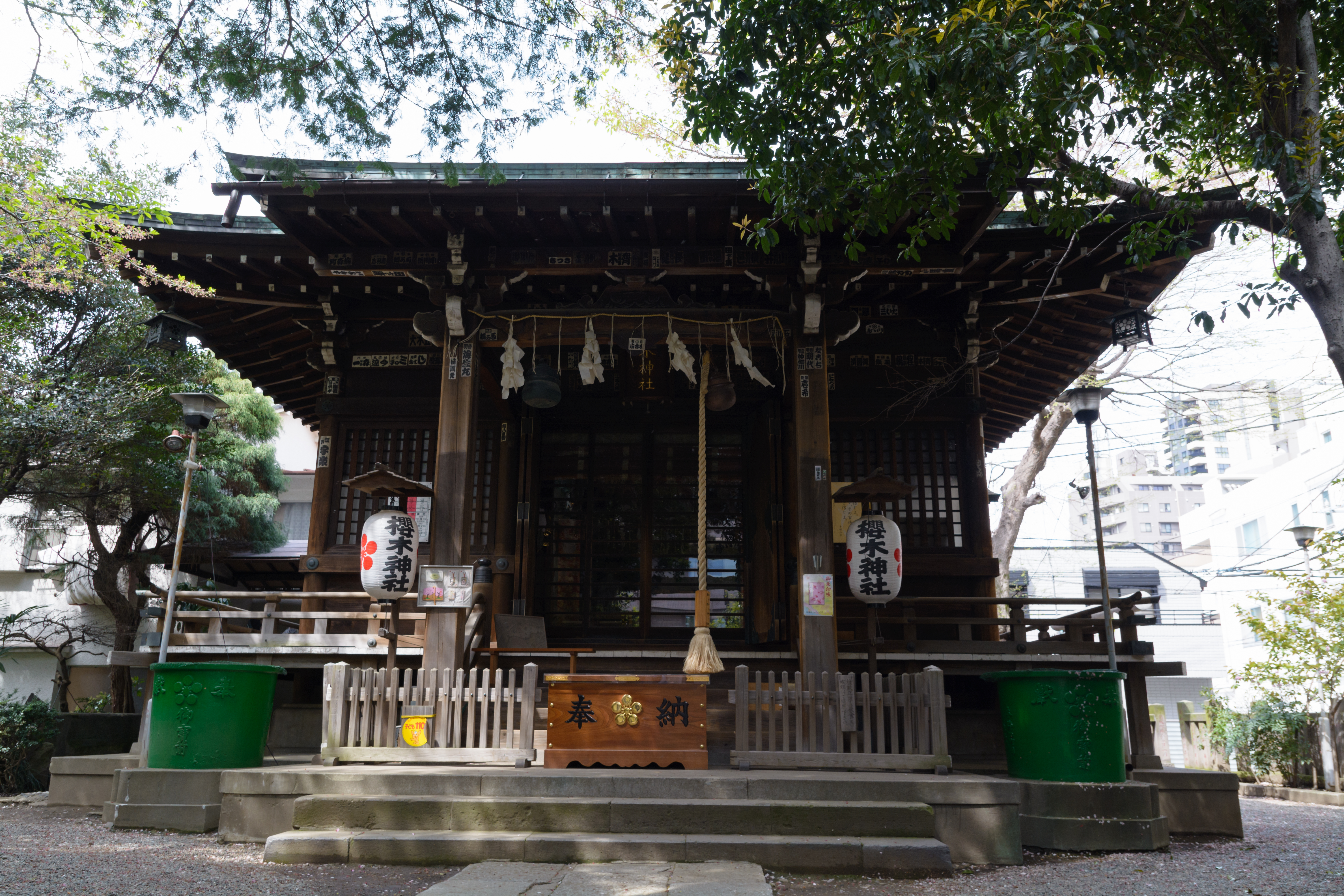 Sakuragi jinja, in Hongo, Bunkyo-ku, Tokyo, JAPAN.